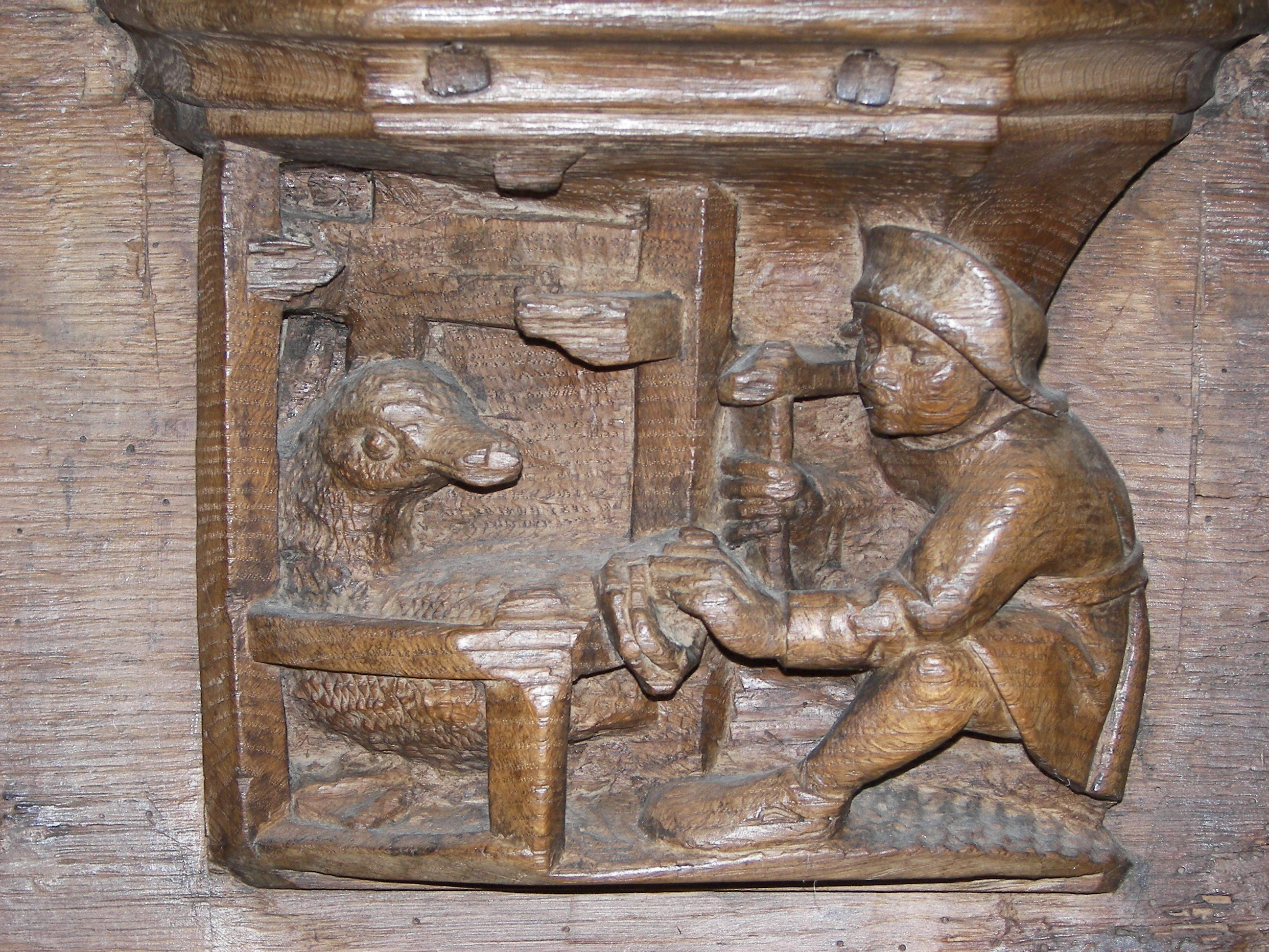 Misericord from the abbaye of Saint Martin aux Bois (Oise) FRANCE